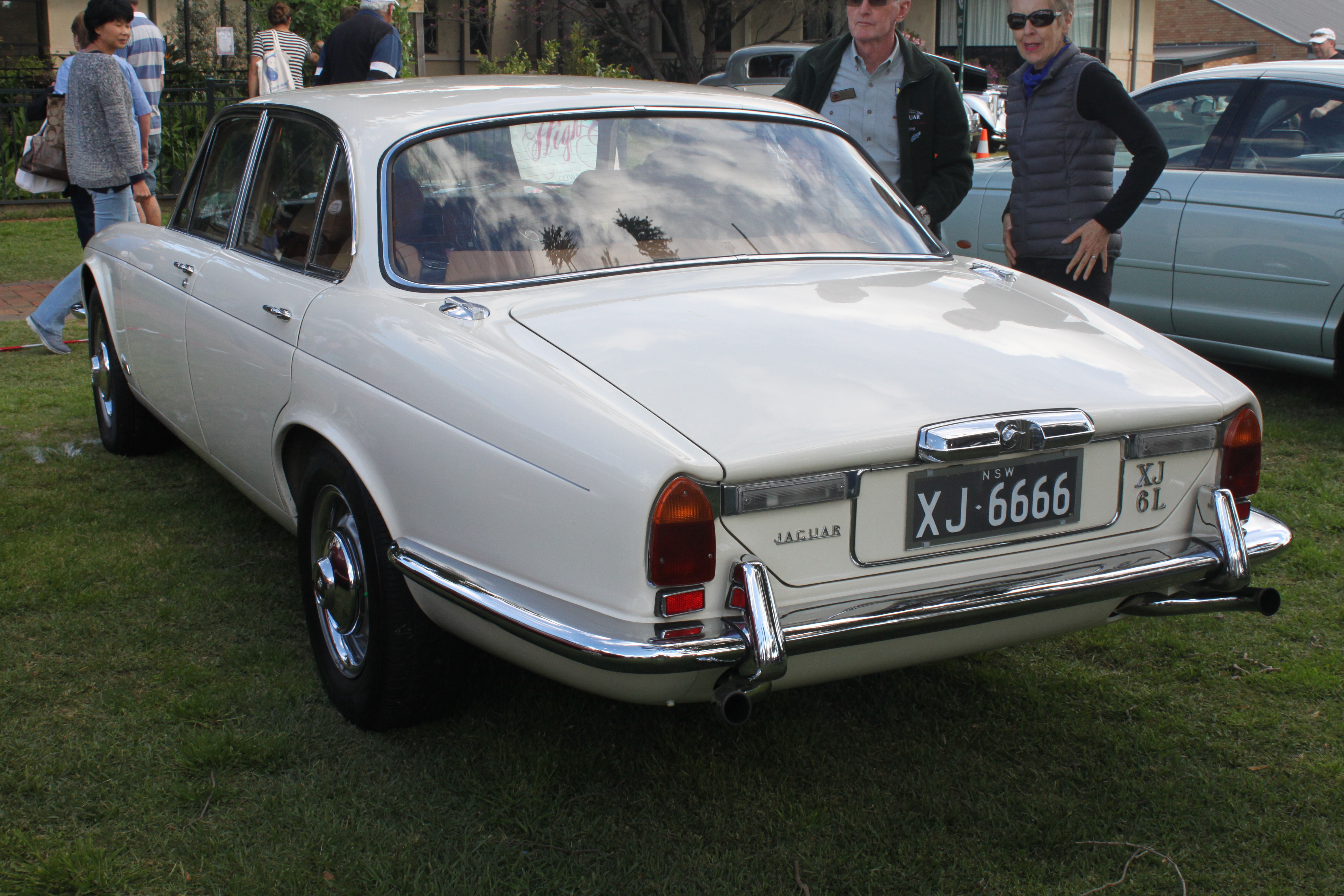 All British Day, Kings School, North Parramatta, NSW August 2015